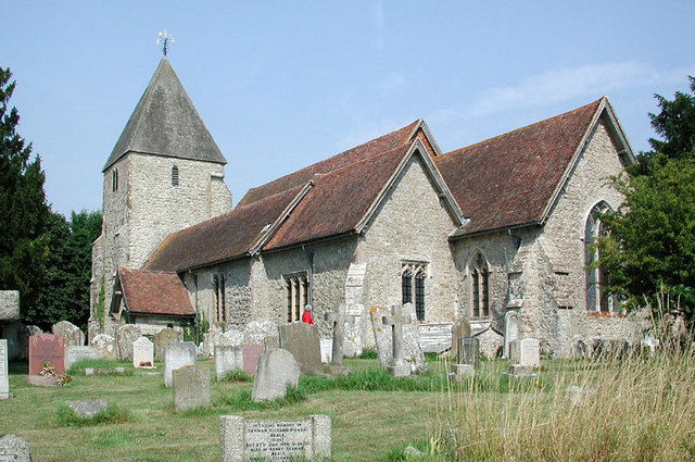 St John the Baptist, Mersham, Kent